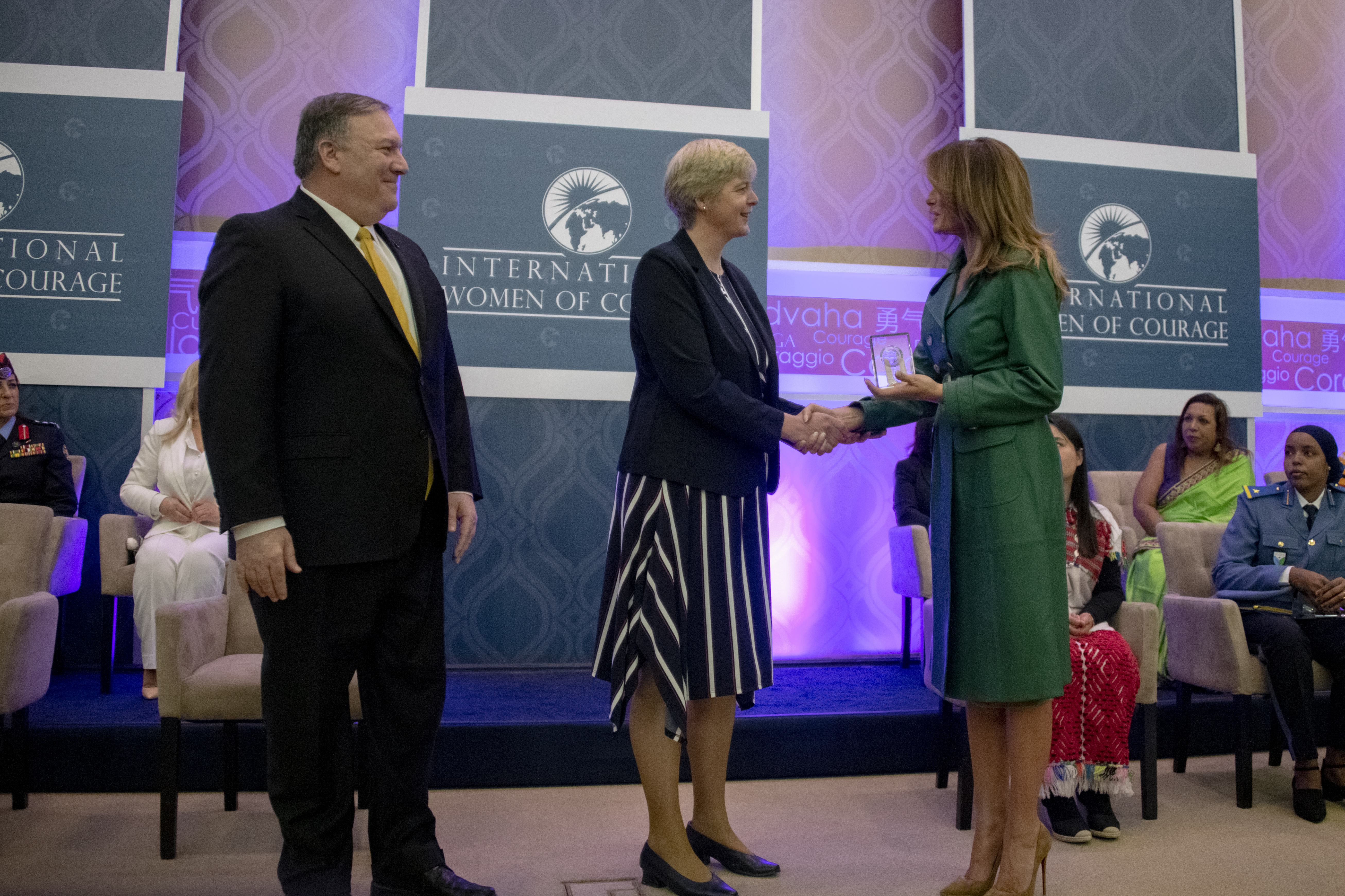 U.S. Secretary of State Michael R. Pompeo and First Lady of the United States Melania Trump present Sister Orla Treacy, Ireland (nominated by the U.S. Embassy to the Holy See) with the 2019 International Women of Courage (IWOC) Award during the ceremony at the U.S. Department of State in Washington, D.C., on March 7, 2019. [State Department photo by Ron Pryzsucha/ Public Domain]